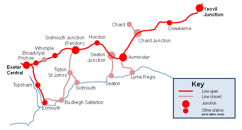 A map showing the former London and South Western Railway branch lines in East Devon, England.